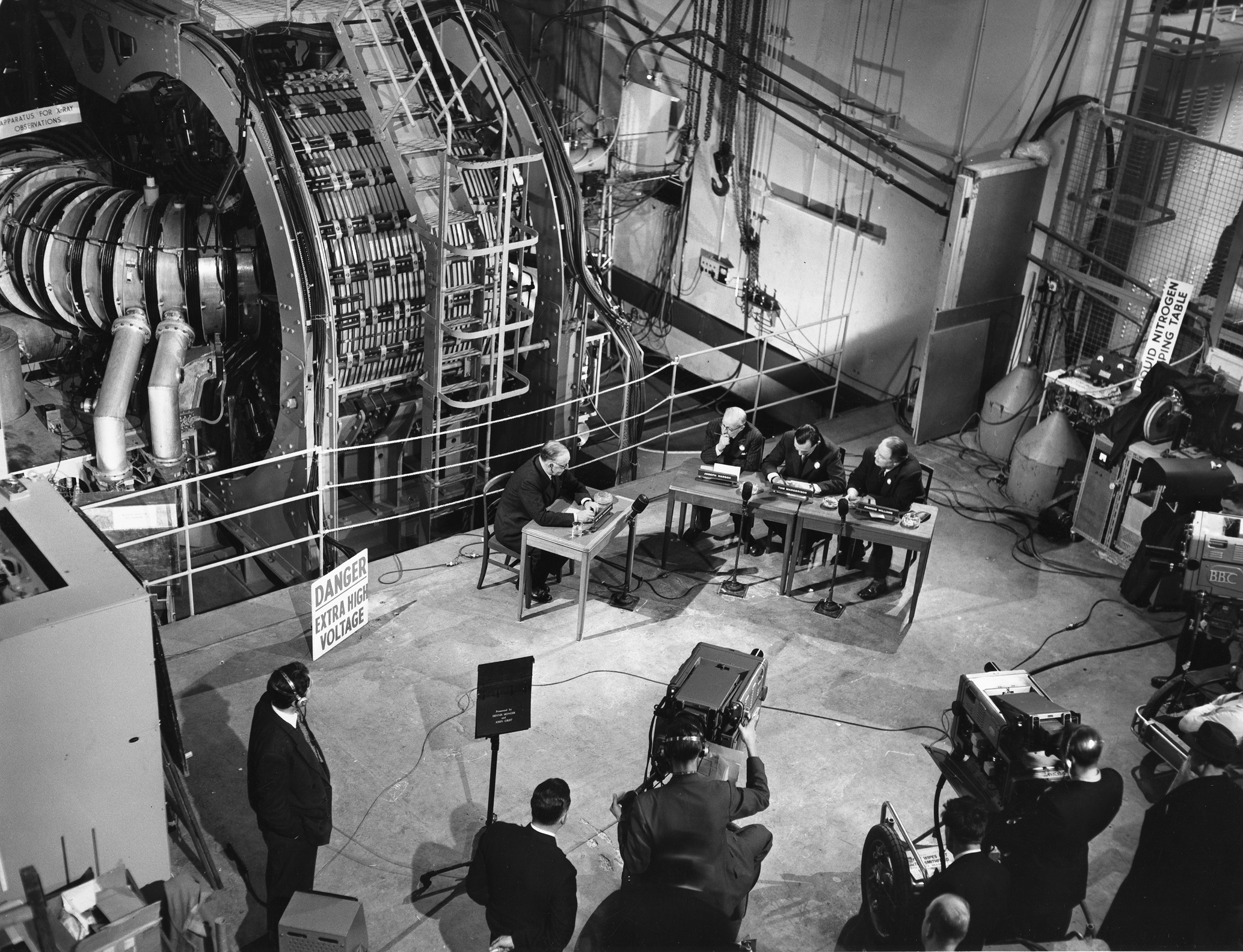 In January 1958 a team of reporters (right) asks John Cockcroft, director of research at the UKAEA, questions about the ZETA reactor seen at the upper left. It was during this interview that Cockcroft, being badgered by the reporters, unwisely offered his assessment that he was 90% sure the neutrons seen from the device were caused by fusion. In May, Cockcroft was forced to publish a retraction of these claims.